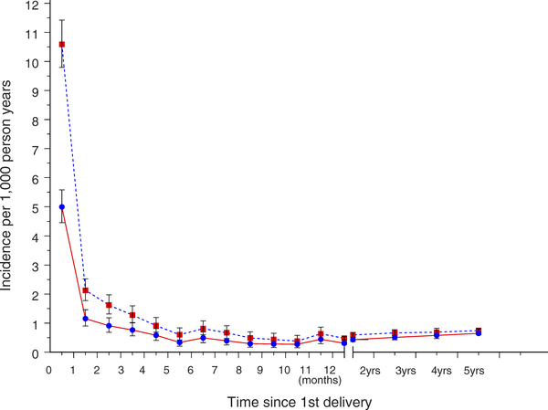 Figure 1. Incidence of Psychoses among Swedish First-Time Mothers. Dashed line: all maternal psychoses; solid line: psychoses in mothers without any previous psychiatric diagnoses.